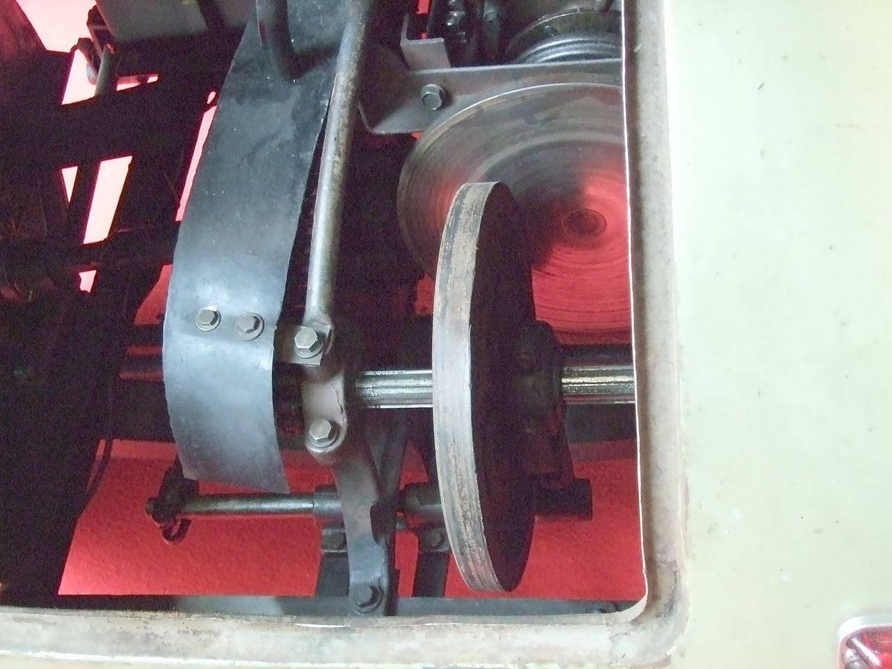 The engine of 1953 Autosandal FS